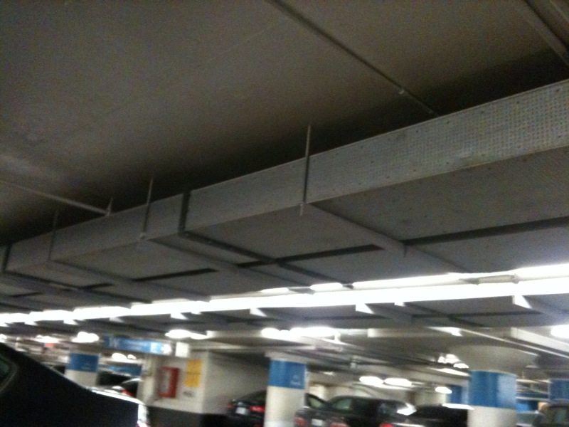 Durasteel pressurisation ductwork, Commerce Court, Toronto, Ontario, Canada, ca. 15 years old, high traffic area, P1 level parking.